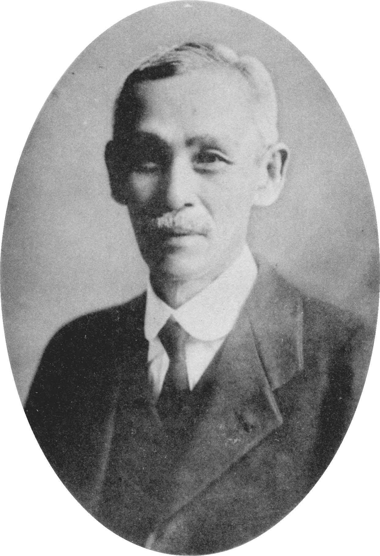 Sakikichi Machida, Dean of the Faculty of Agriculture at Tokyo Imperial University.